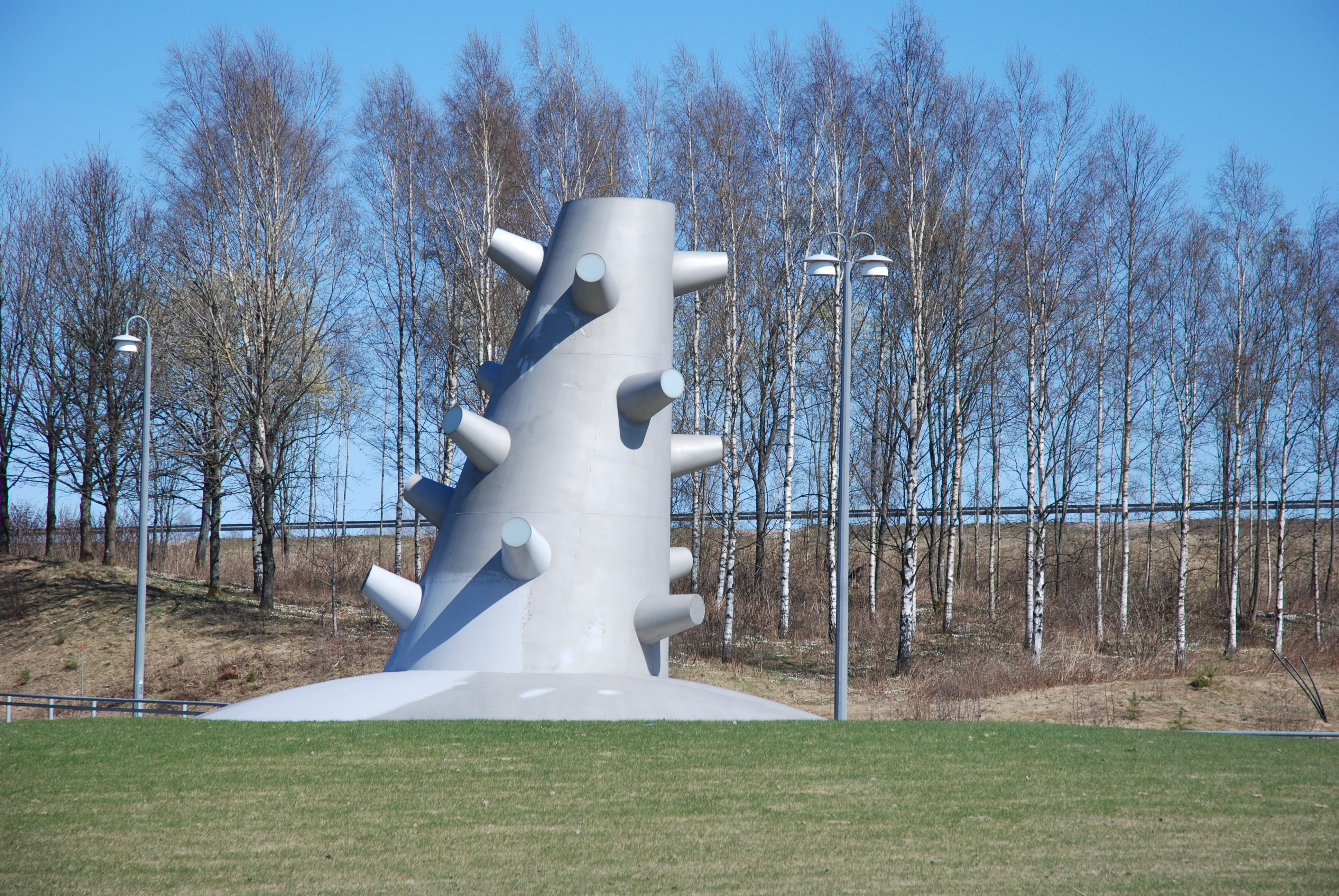 Riktning (Direction), by Norwegian sculptor Per Inge Björlo, Värnamo, Sweden